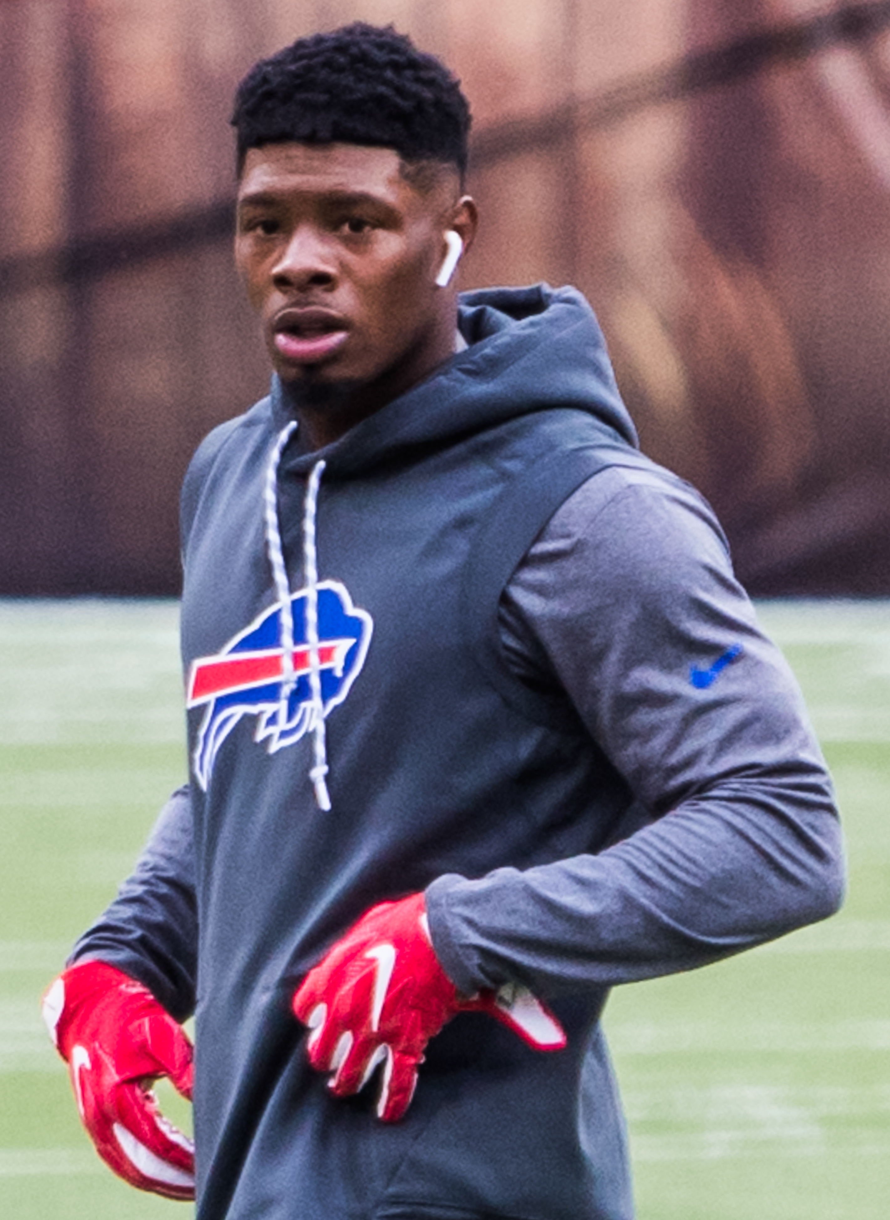 Corey Coleman